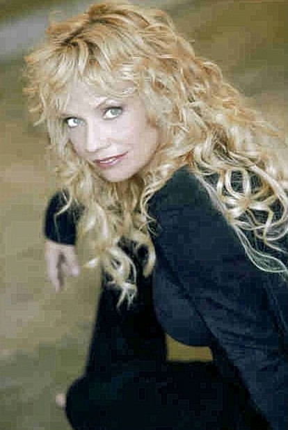 American actress Kelli Maroney.